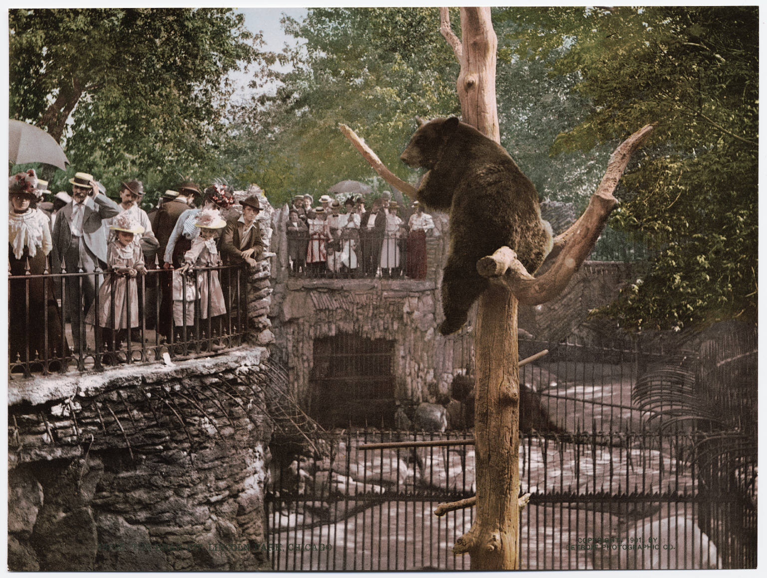 A photochrom postcard published by the Detroit Photographic Company.